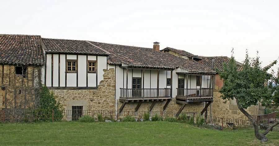 Arquitectura típica en Cuacos de Yuste